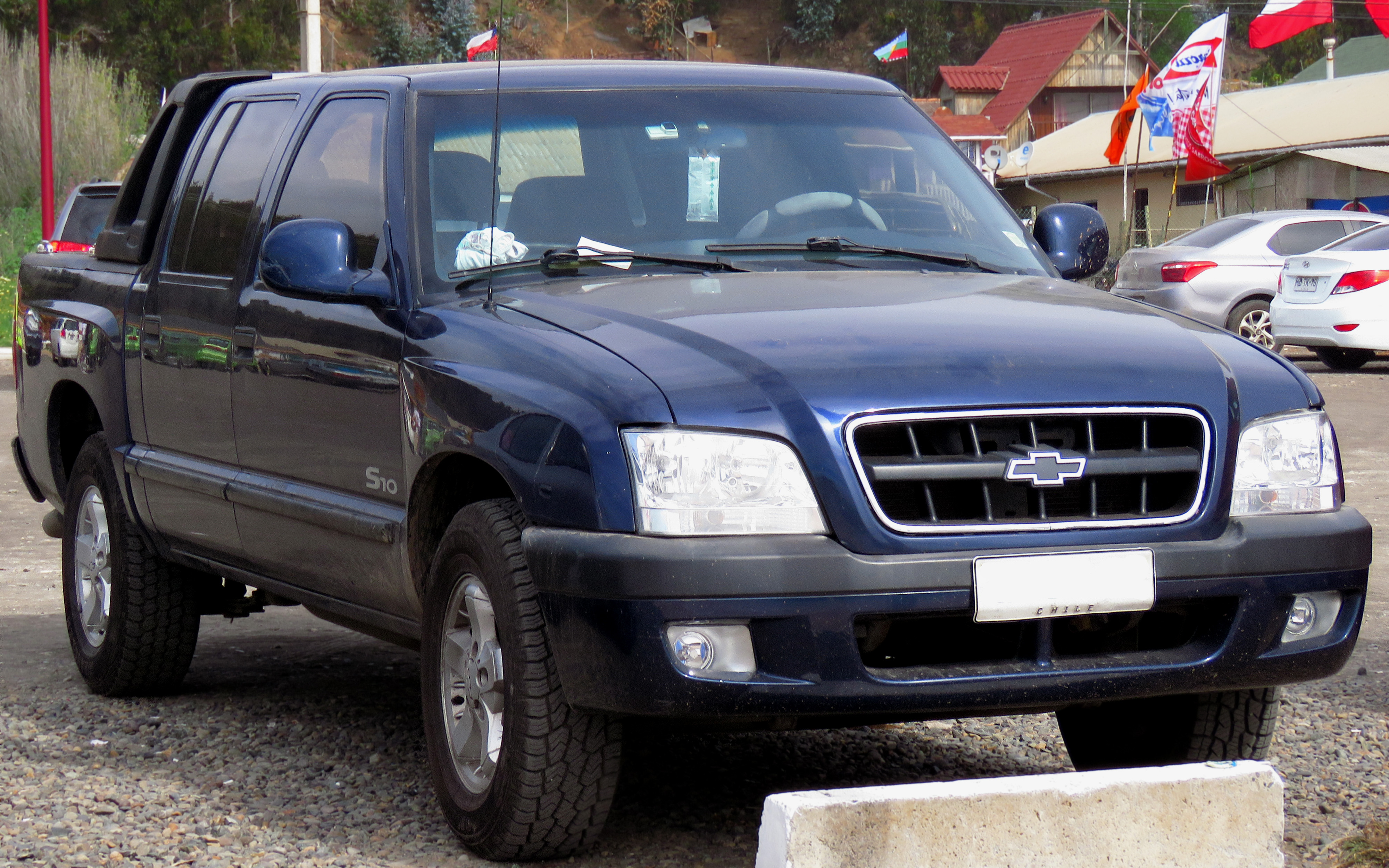 Chevrolet S-10 Apache 2.8 2006